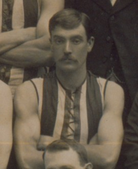 Photograph of Alf Boyack in 1902.